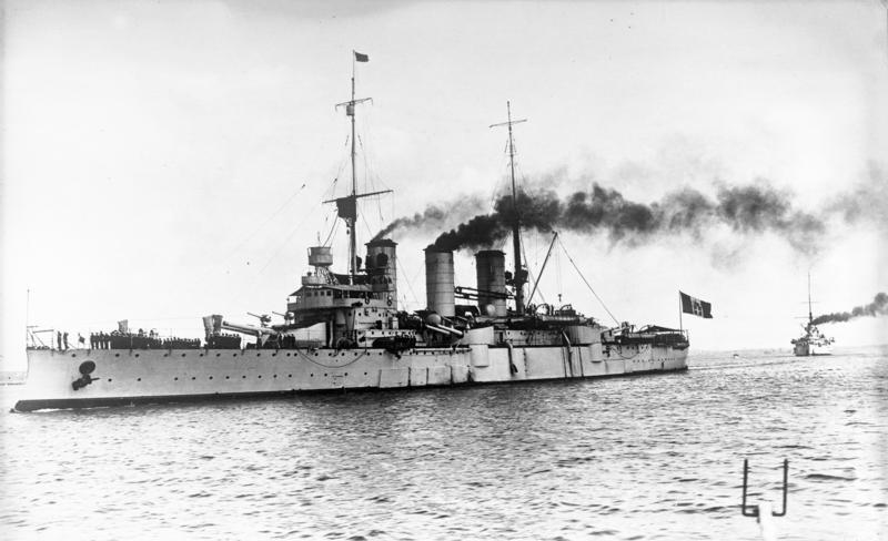 Italian armoured cruiser Pisa